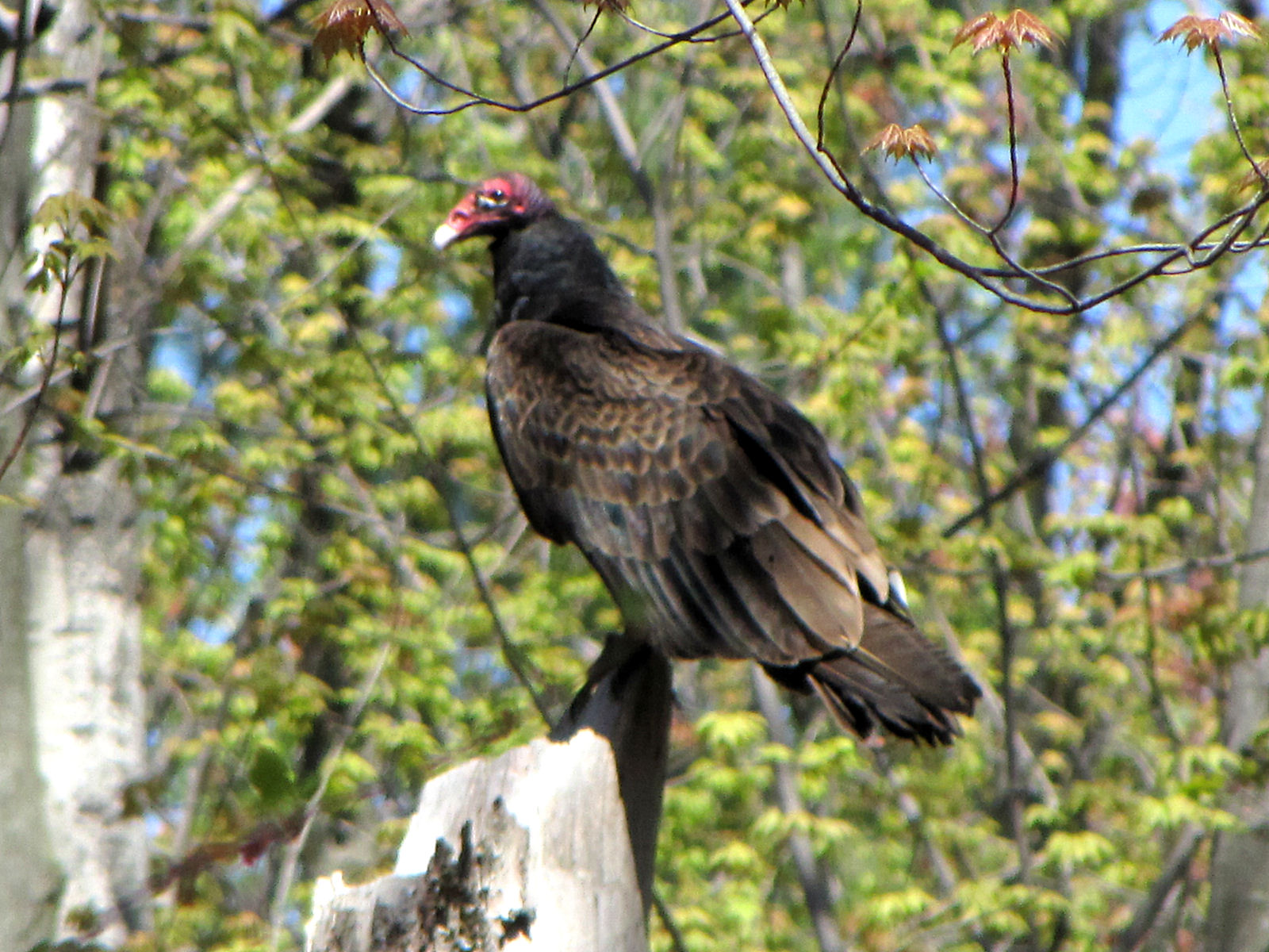 Turkey Vulture (Cathartes aura septentrionalis), Pine Grove Trial, Ottawa, Ontario